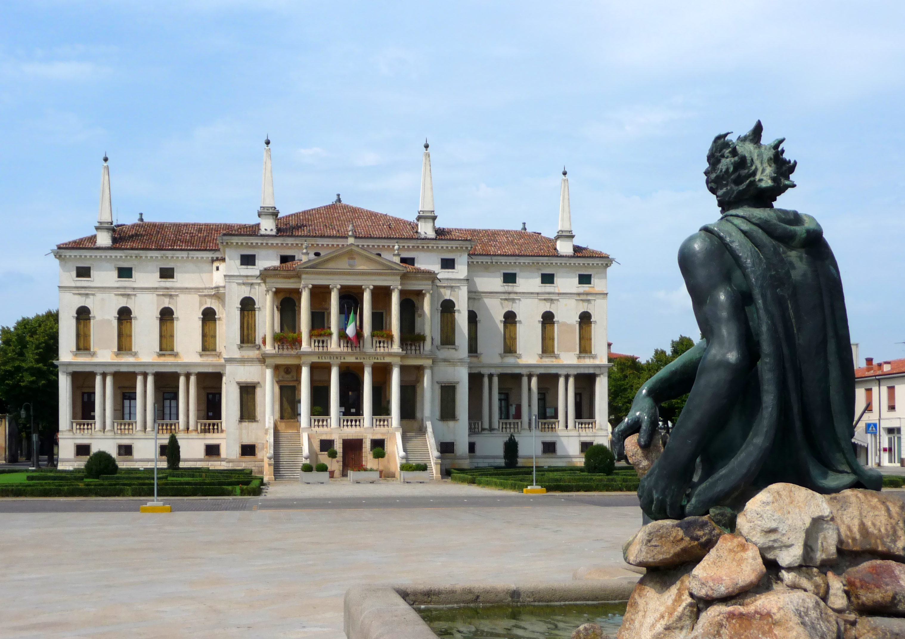 Villa Barbarigo in Noventa Vicentina, Province of Vicenza, Italy. Late 16th century.